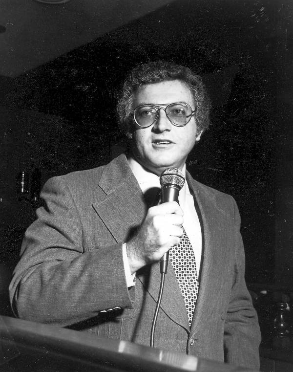 Barry Kutun, Florida legislator